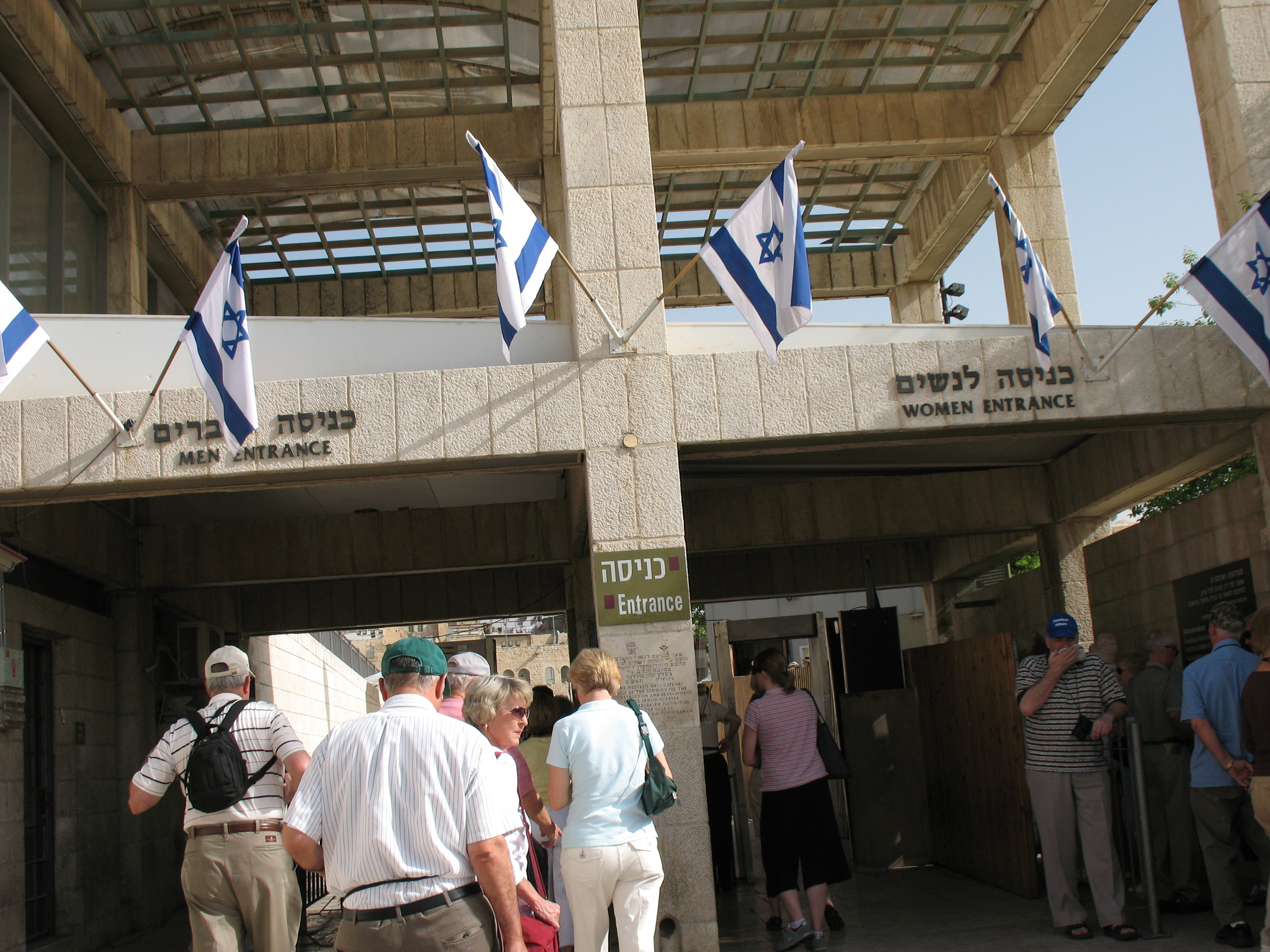 This photo shows sex-segregated entrances for the Western Wall.